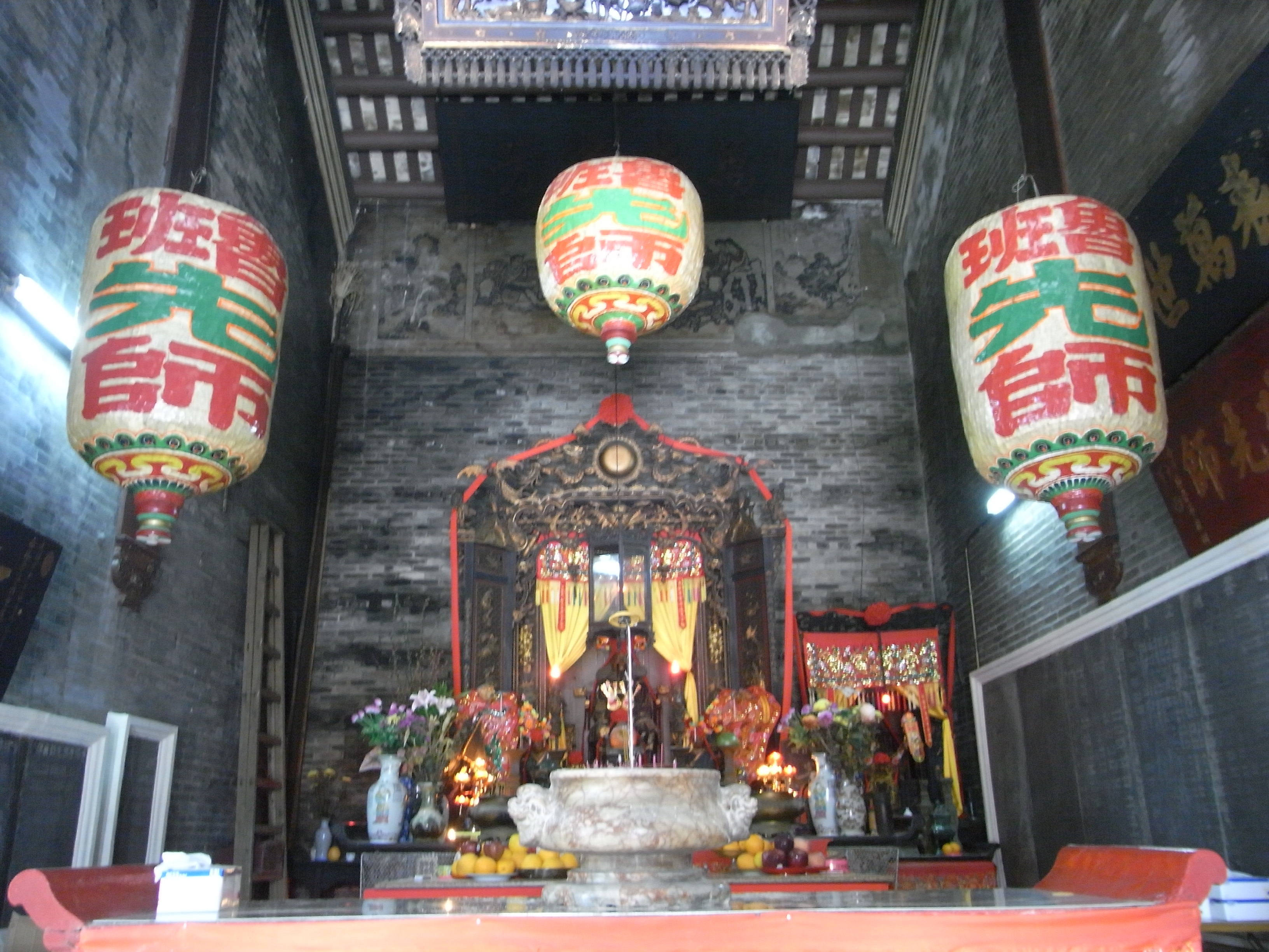 堅尼地城青蓮臺 魯班先師廟